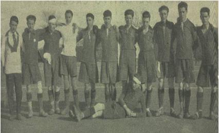 alineacion cacereño 1919